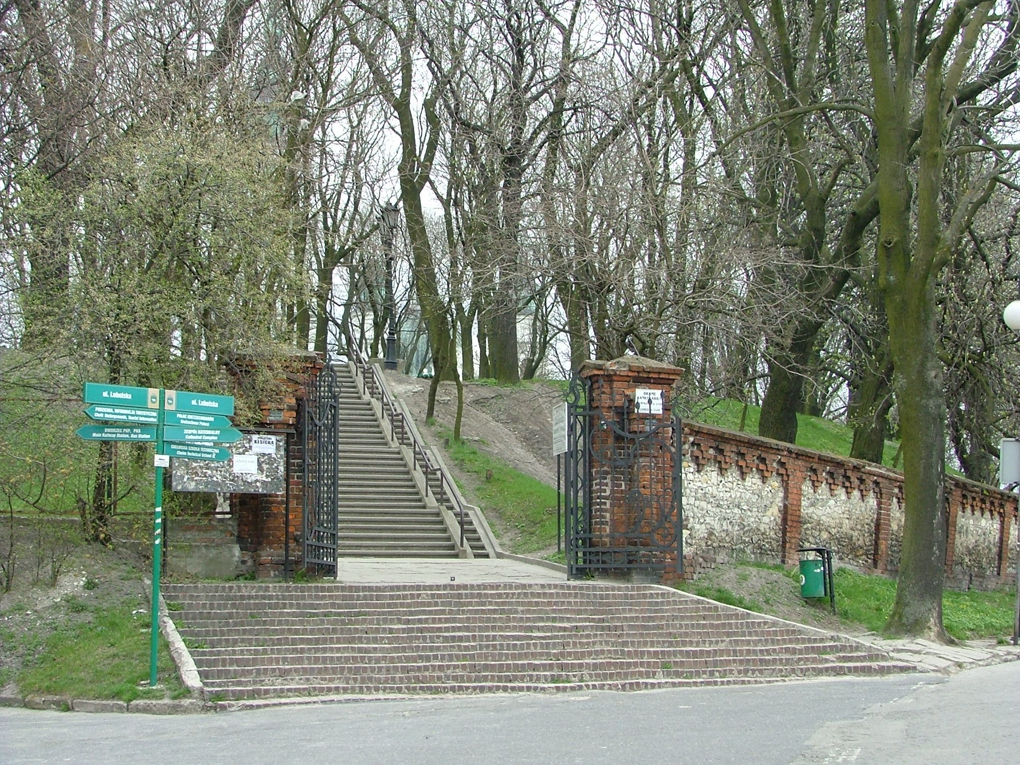 Poland, Lubelska Street in Chełm